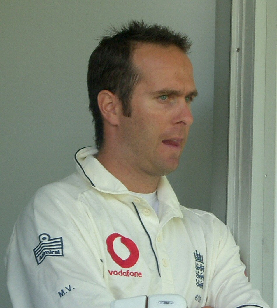 Michael Vaughan at the Perth cricket ground in December 2006